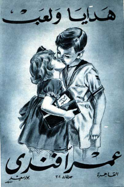 محلات مصرية